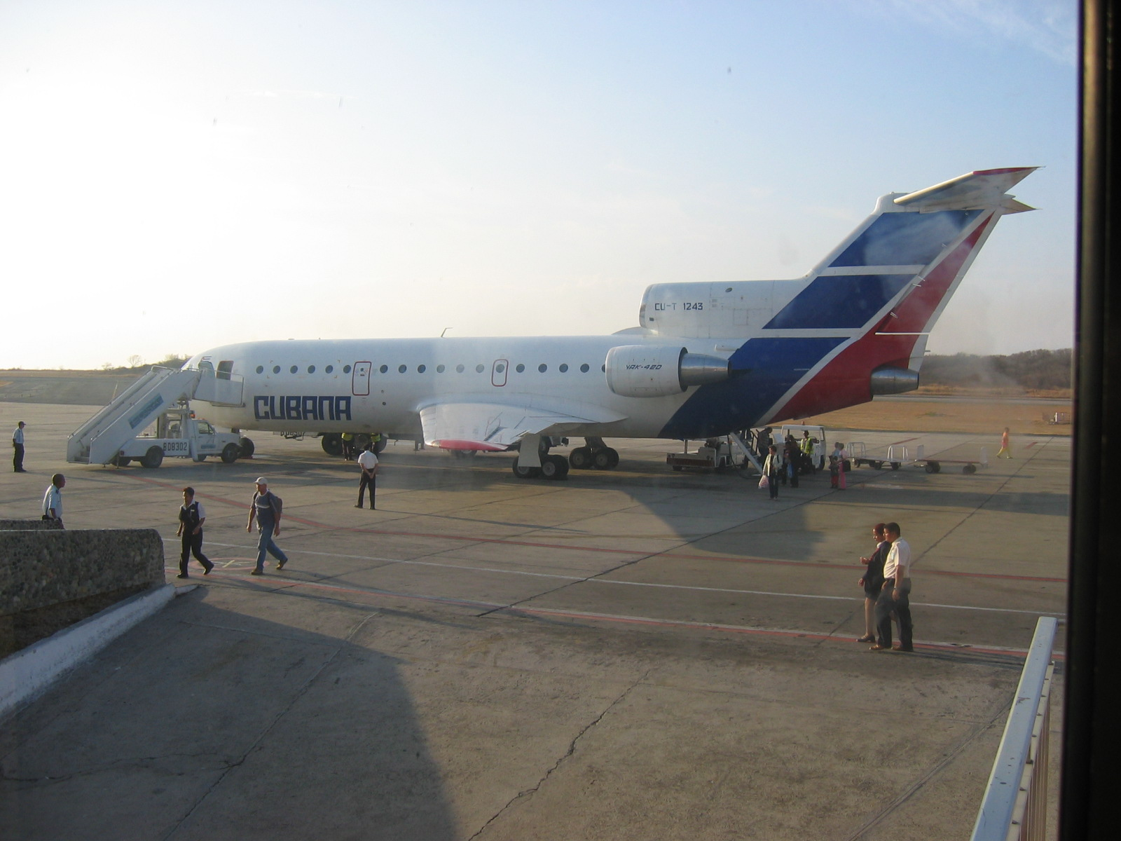 Airplane of Cubana de Aviación at the airport of Santiago de Cuba CU-T1243